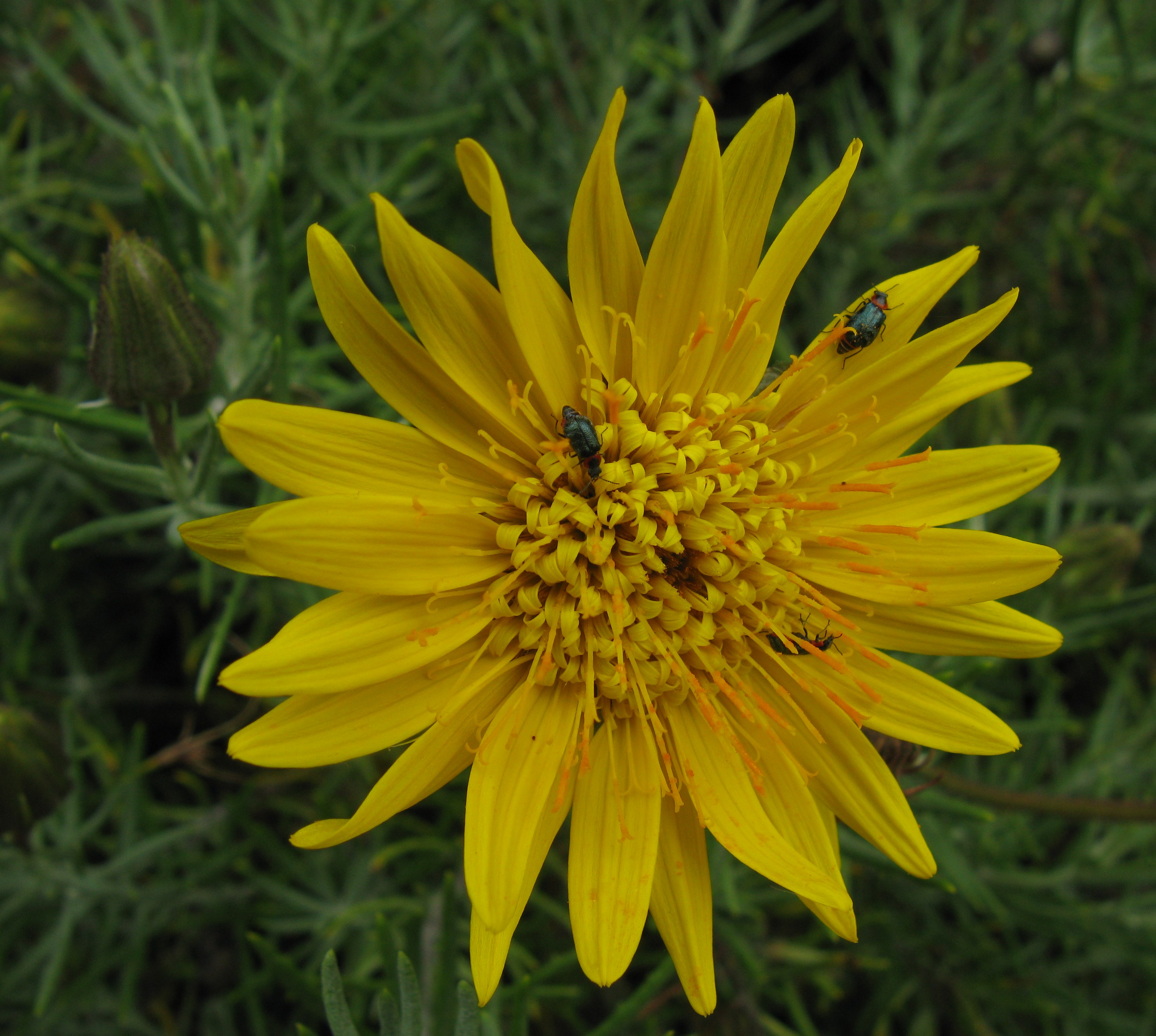 Heterolepis aliena. Flowerhead of "Rock daisy" in the wild, with attendant pollinator beetles